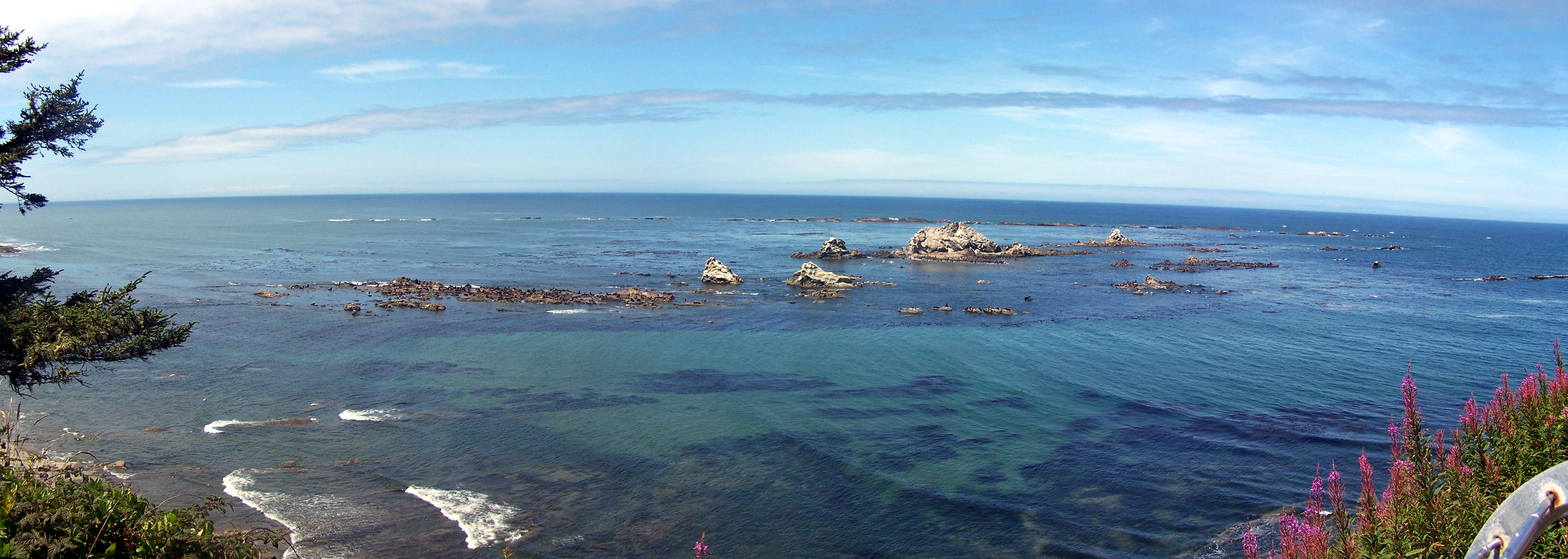 A panorama of Simpson Reef in the Pacific Ocean, near Cape Arago and Coos Bay, Oregon.